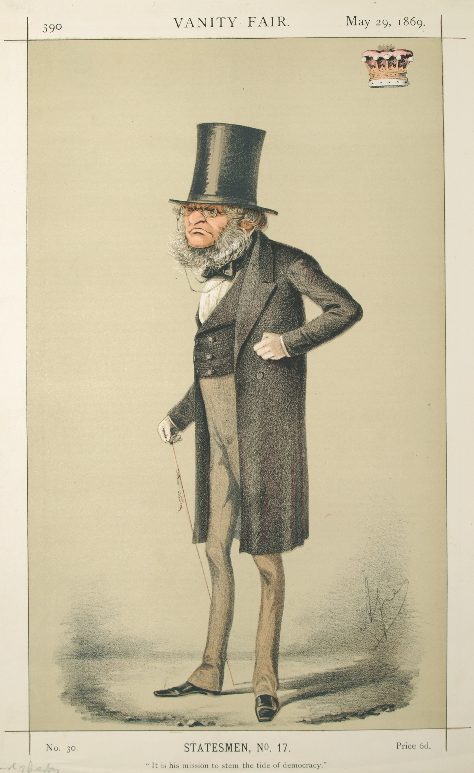 Statesmen No.17: Caricature of The Earl of Derby. Caption reads: "It is his mission to stem the tide of democracy."